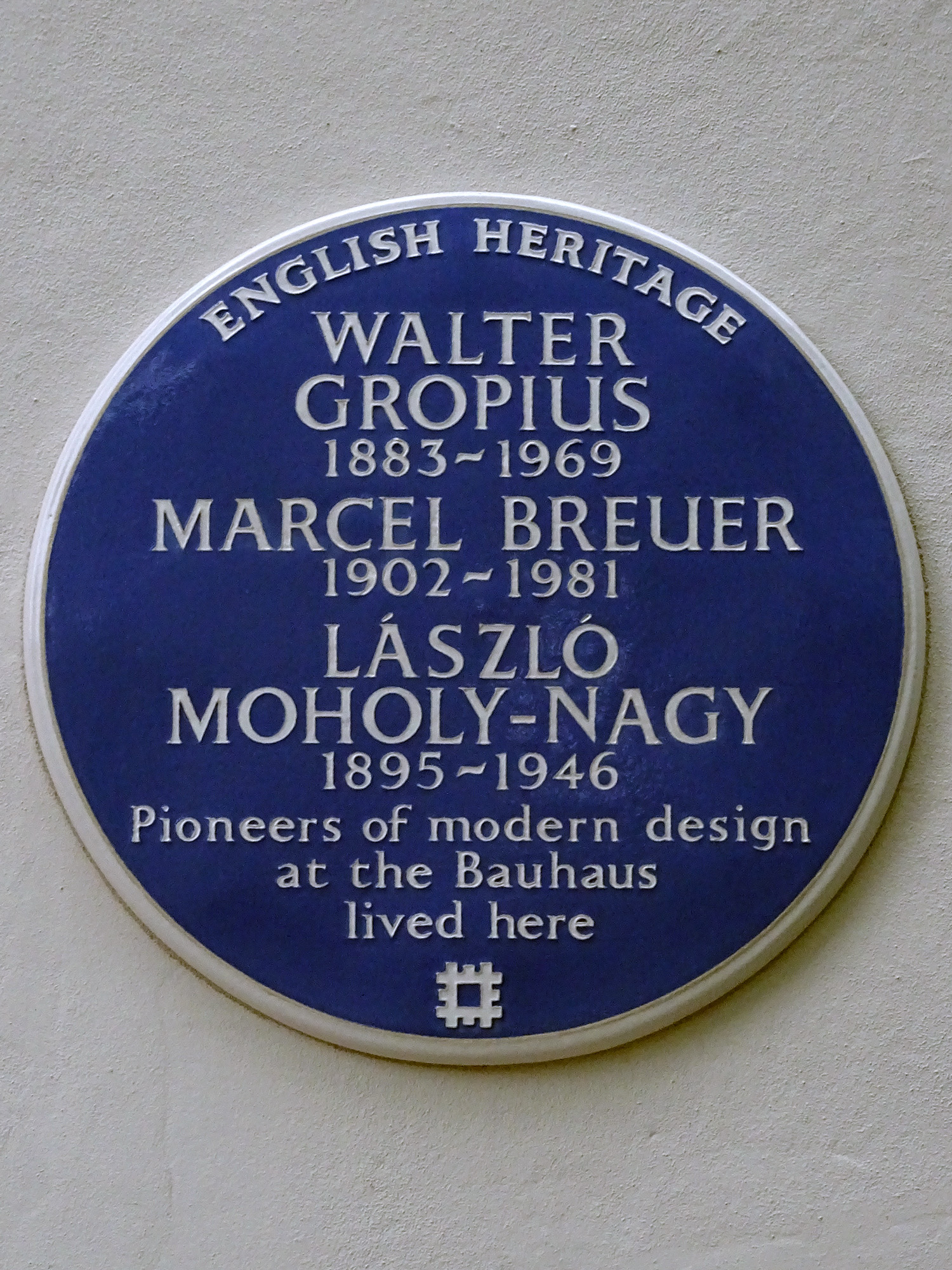 Blue plaque unveiled on 9th July 2018. Erected by by English Heritage at Lawn Road Flats, Hampstead, London NW3 2XD, London Borough of Camden